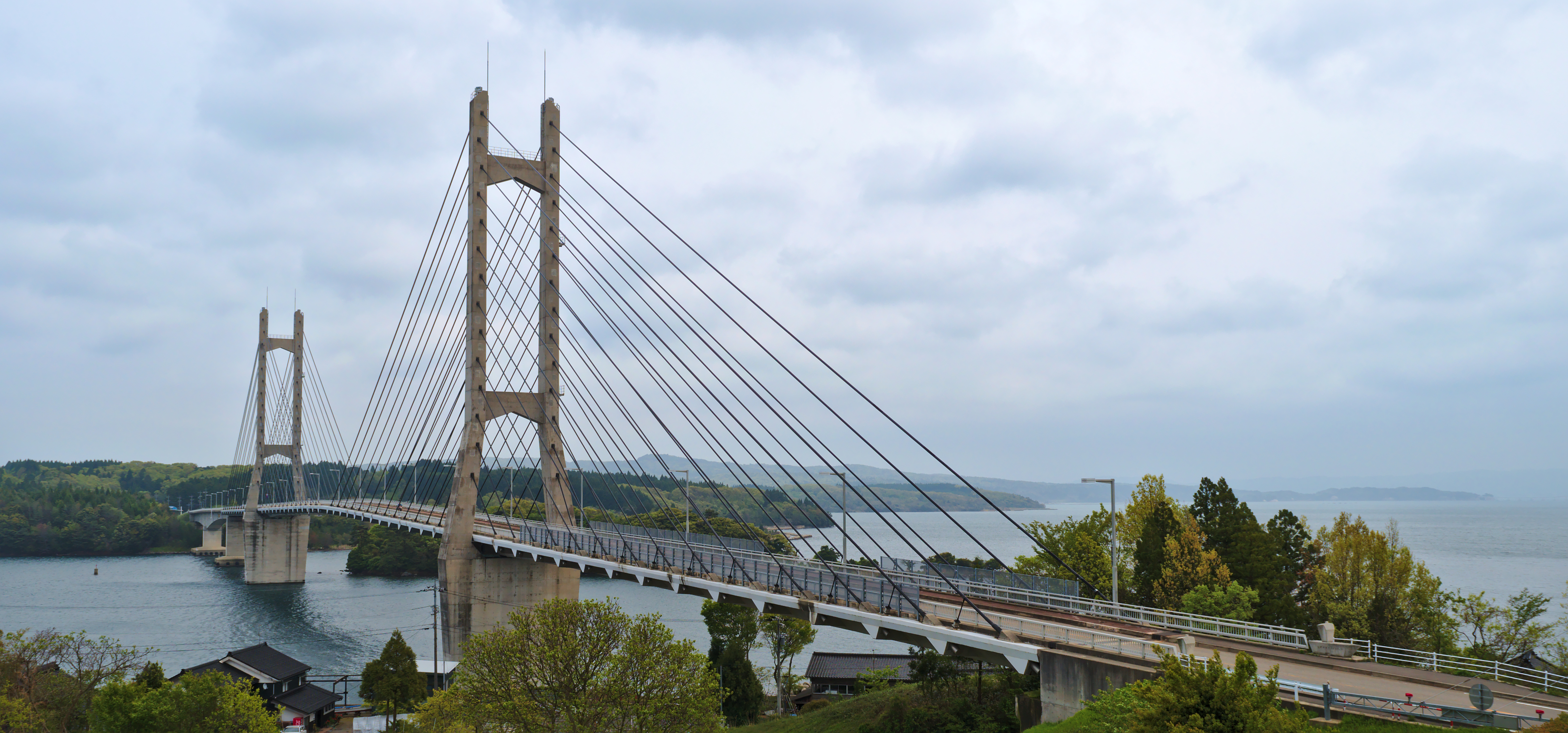 Twin tower bridge Nakanoto nōdō bashi (Nanao, Ishikawa)